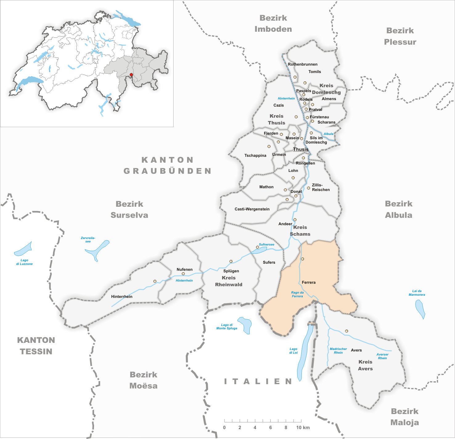 Municipality Ferrera